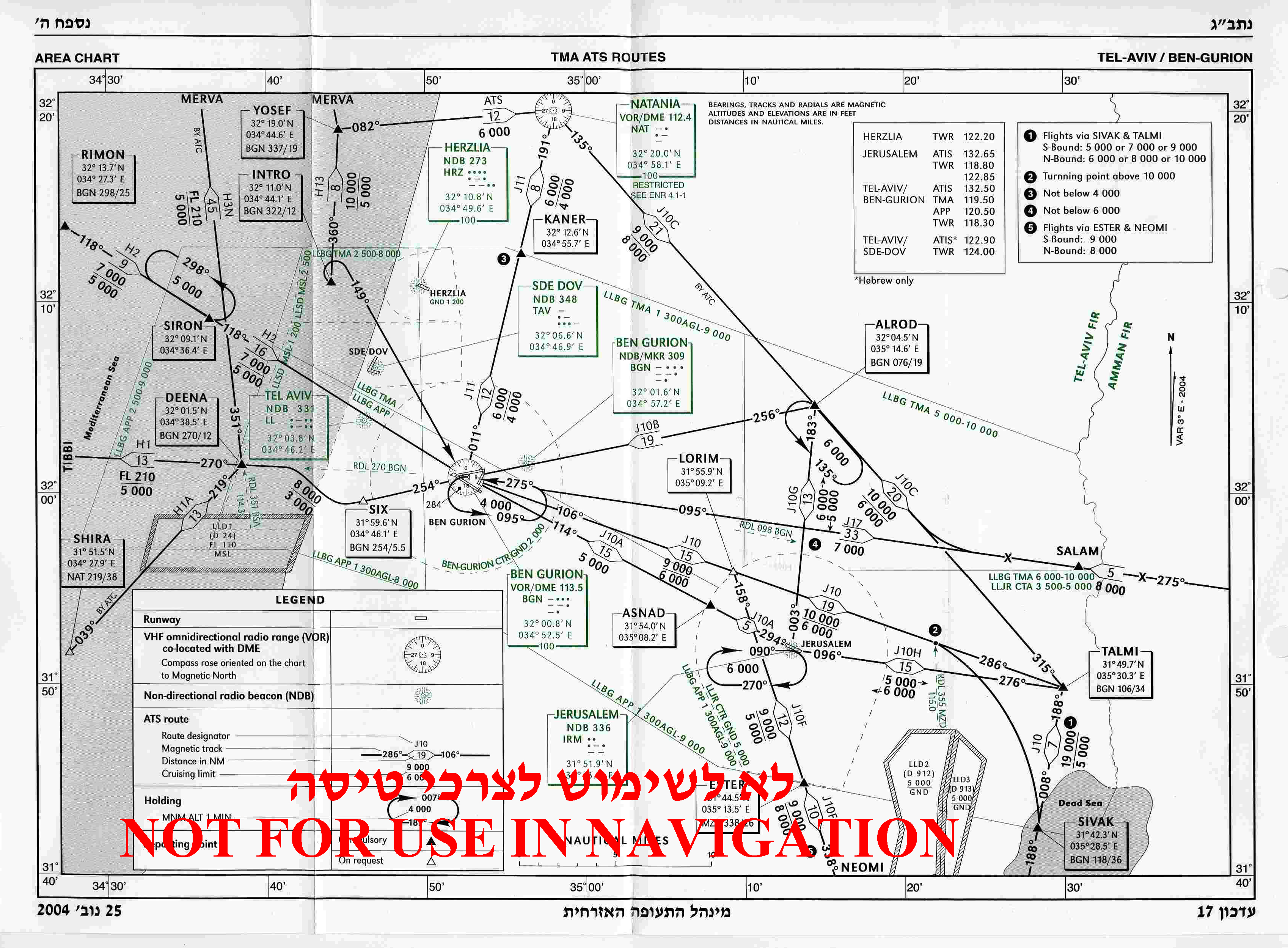 Ben Gurion International Airport (Israel) TMA ATS routes area chart